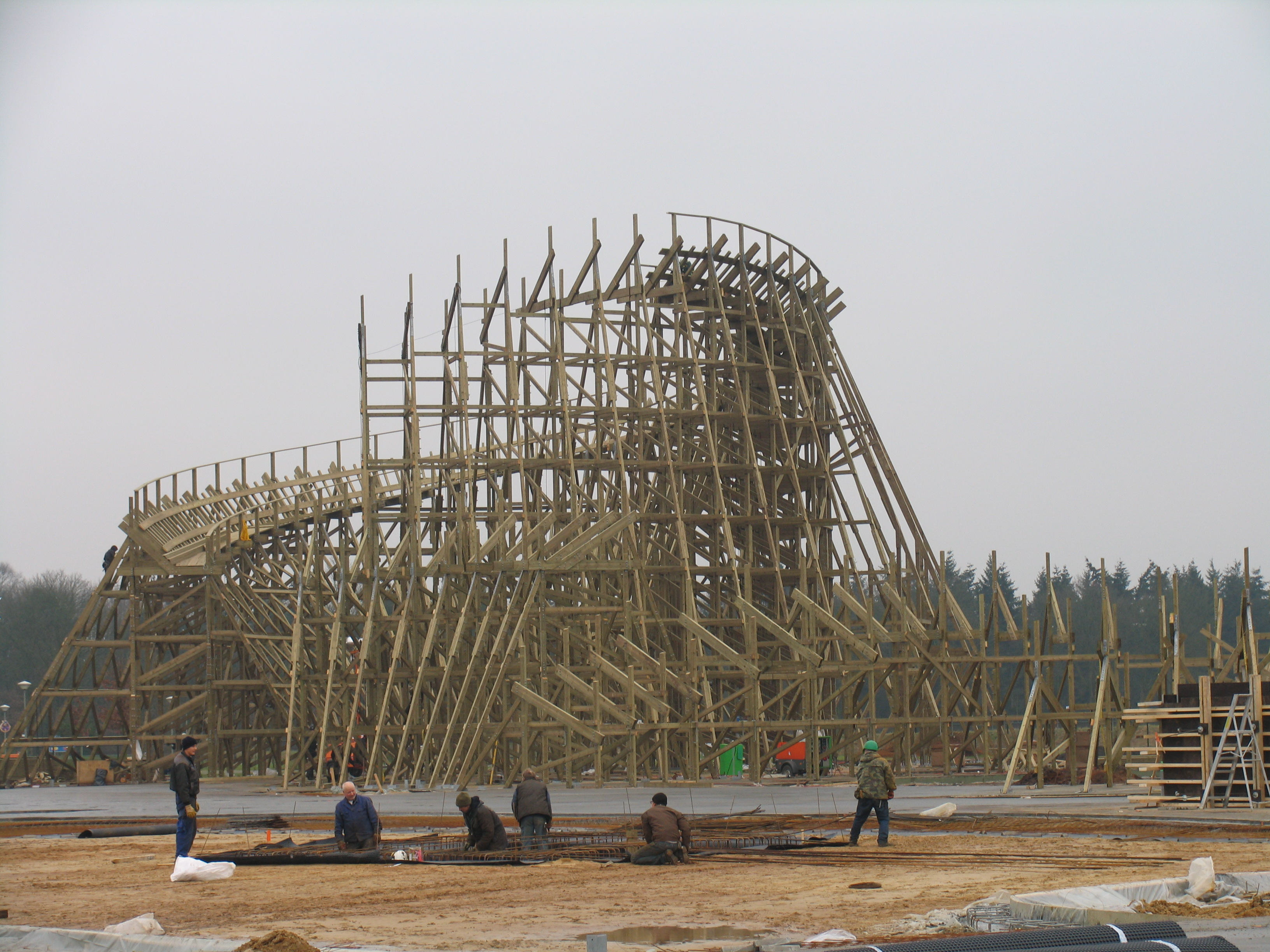 Toverland, Netherlands, Construction Site of Roller Coaster Troy